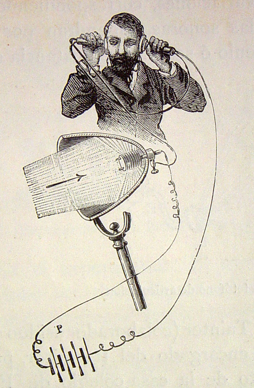 Illustration of the photophone's receiver, originally from: El mundo físico : gravedad, gravitación, luz, calor, electricidad, magnetismo, etc. / A. Guillemin by: Guillemin, Amédée, published by: Barcelona Montaner y Simón, 1882